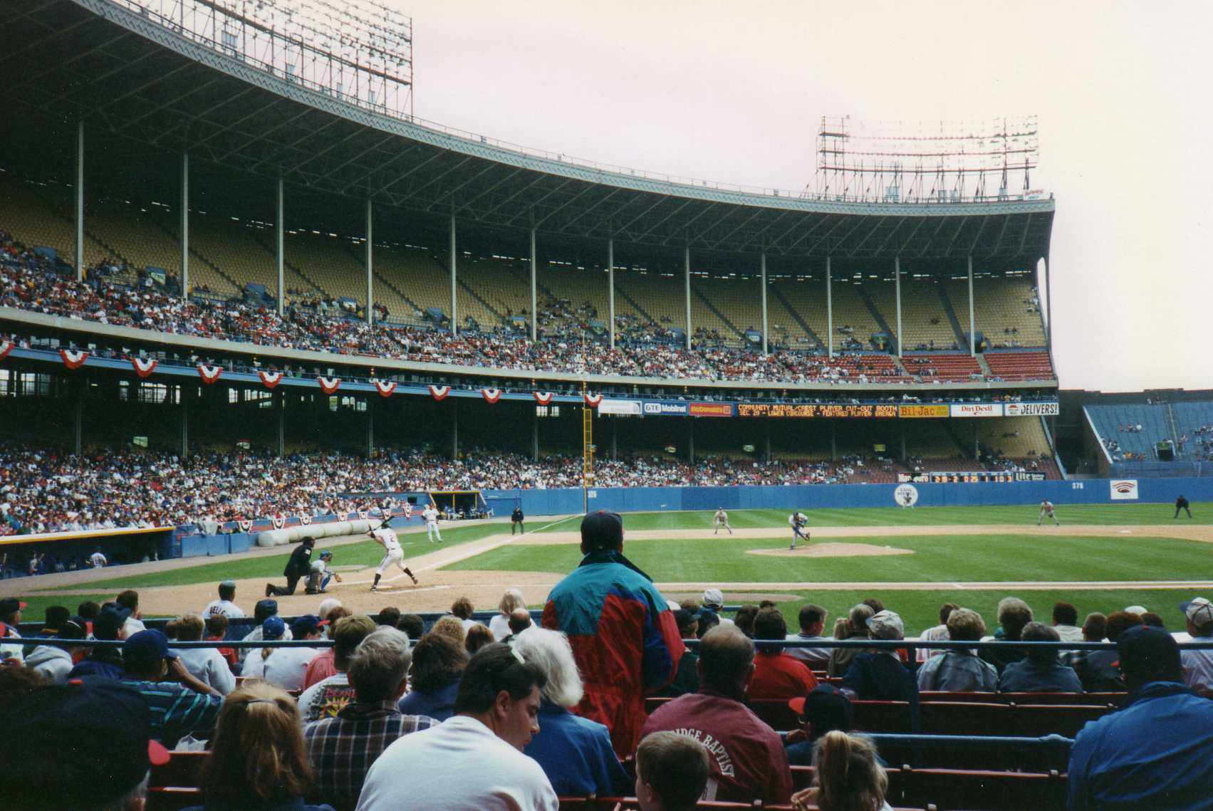 Interior view of Cleveland Municipal Stadium in a game against Milwaukee Brewers, late in the stadium's final season